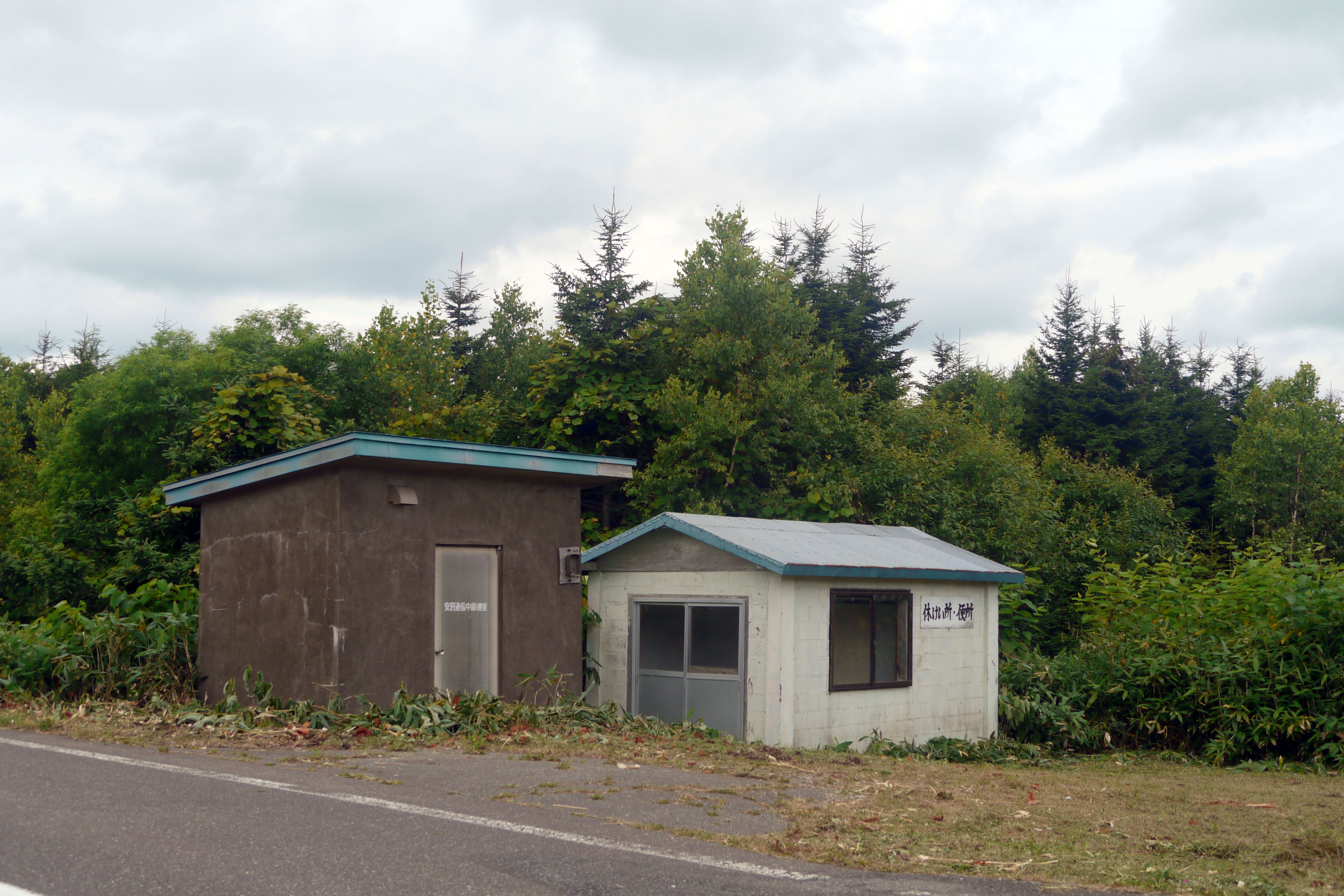 The remains of Yasubetsu Station of the Tenpoku Line in Hokkaido, Japan. Photo taken on August 5, 2011.